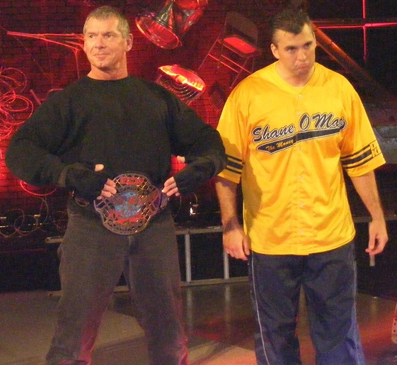 Vince McMahon and his son Shane McMahon, cropped version of the file Umaga Vince Shane.jpg that is already on Commons